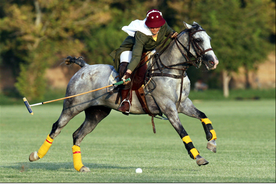 Iranian girl polo player.